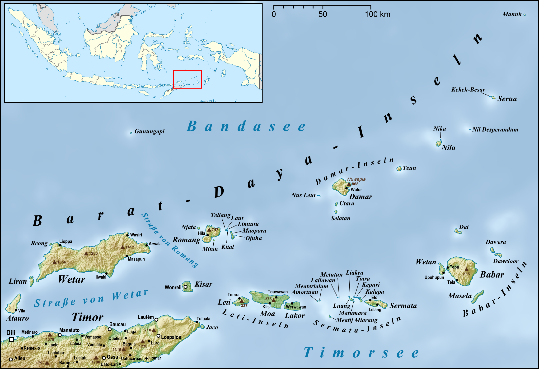 Map of Barat Daya Islands and also the Leti Islands, Sermata Islands and Babar Islands